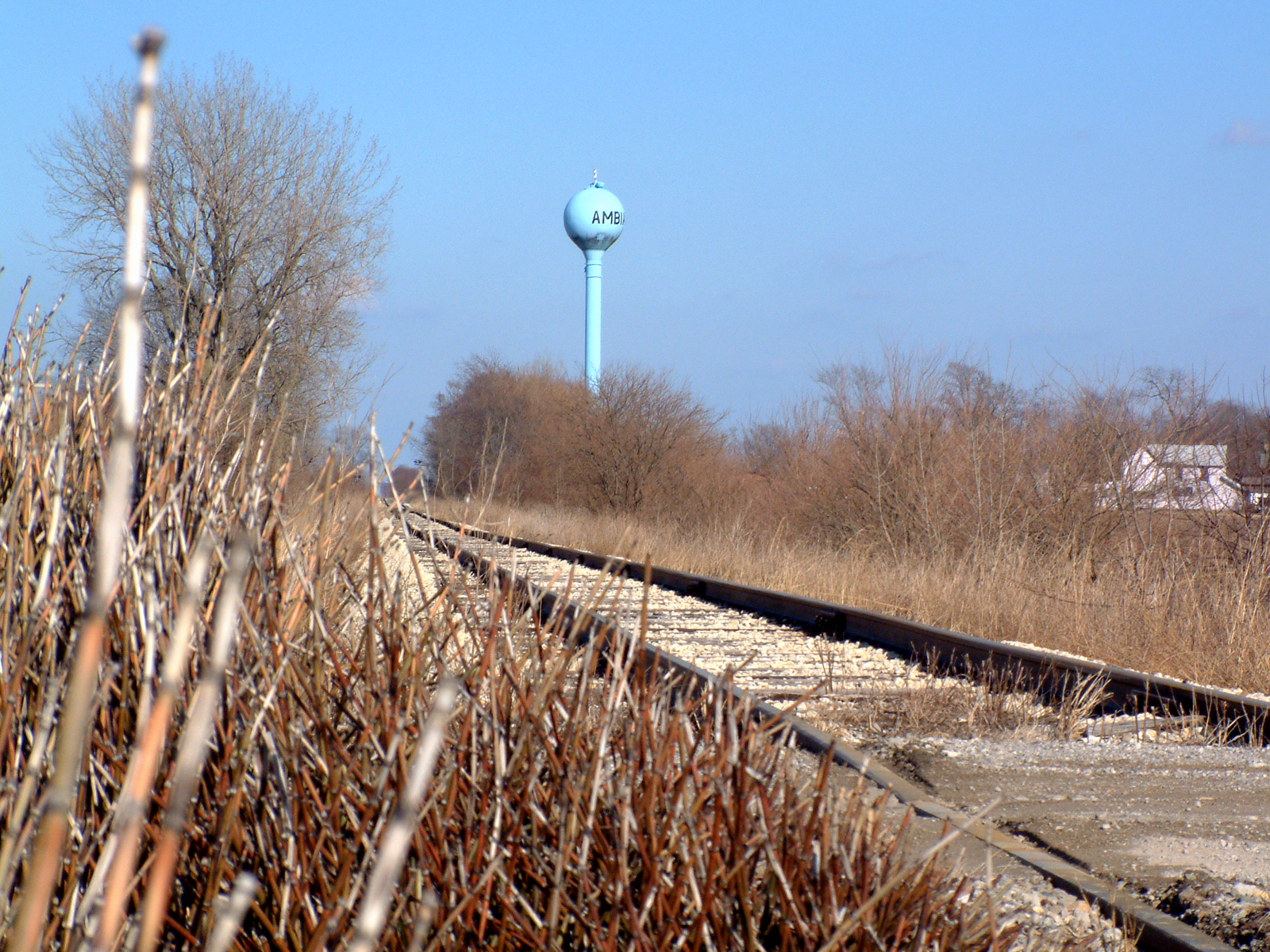 Looking east towards the town of Ambia, Indiana, along the Kankakee, Beaverville and Southern Railroad. This photo was taken from the Illinois-Indiana state line, with horsetail plants (Equisetum laevigatum) in the foreground.